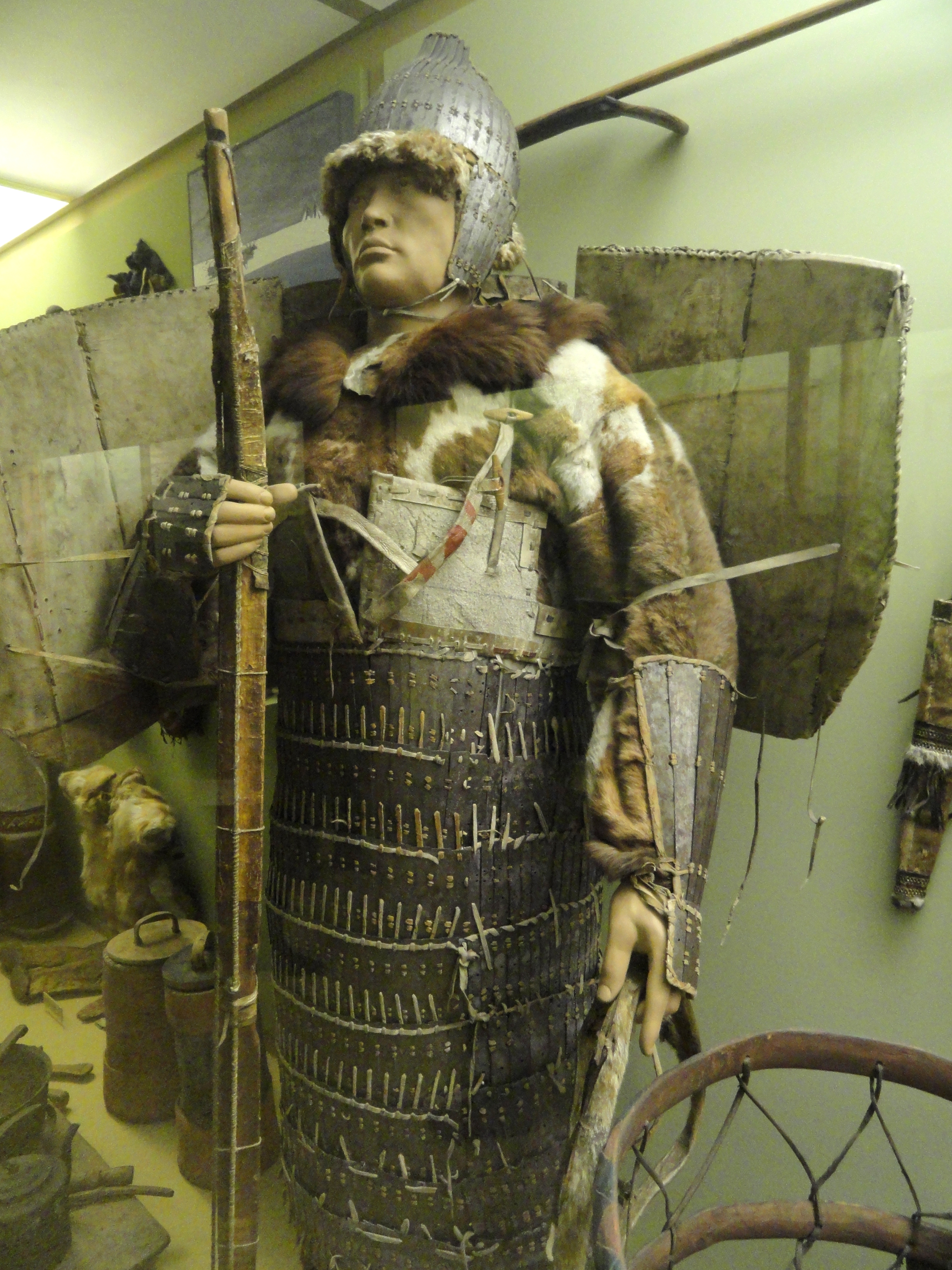 Exhibit in the Asian collection of the American Museum of Natural History, Manhattan, New York City, New York, USA.